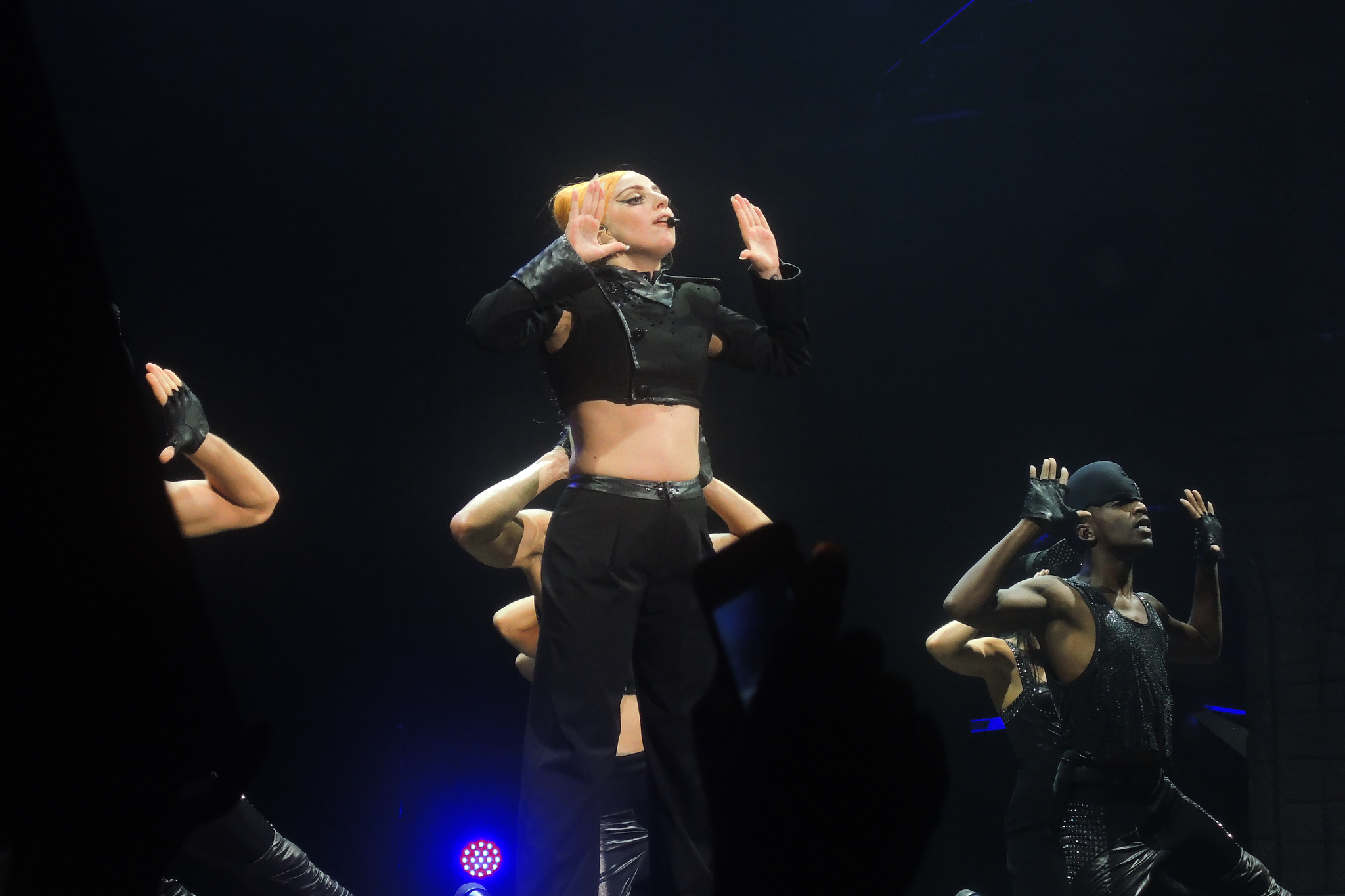 Lady Gaga performing "Scheiße" on The Born This Way Ball in Vienna, Austria.